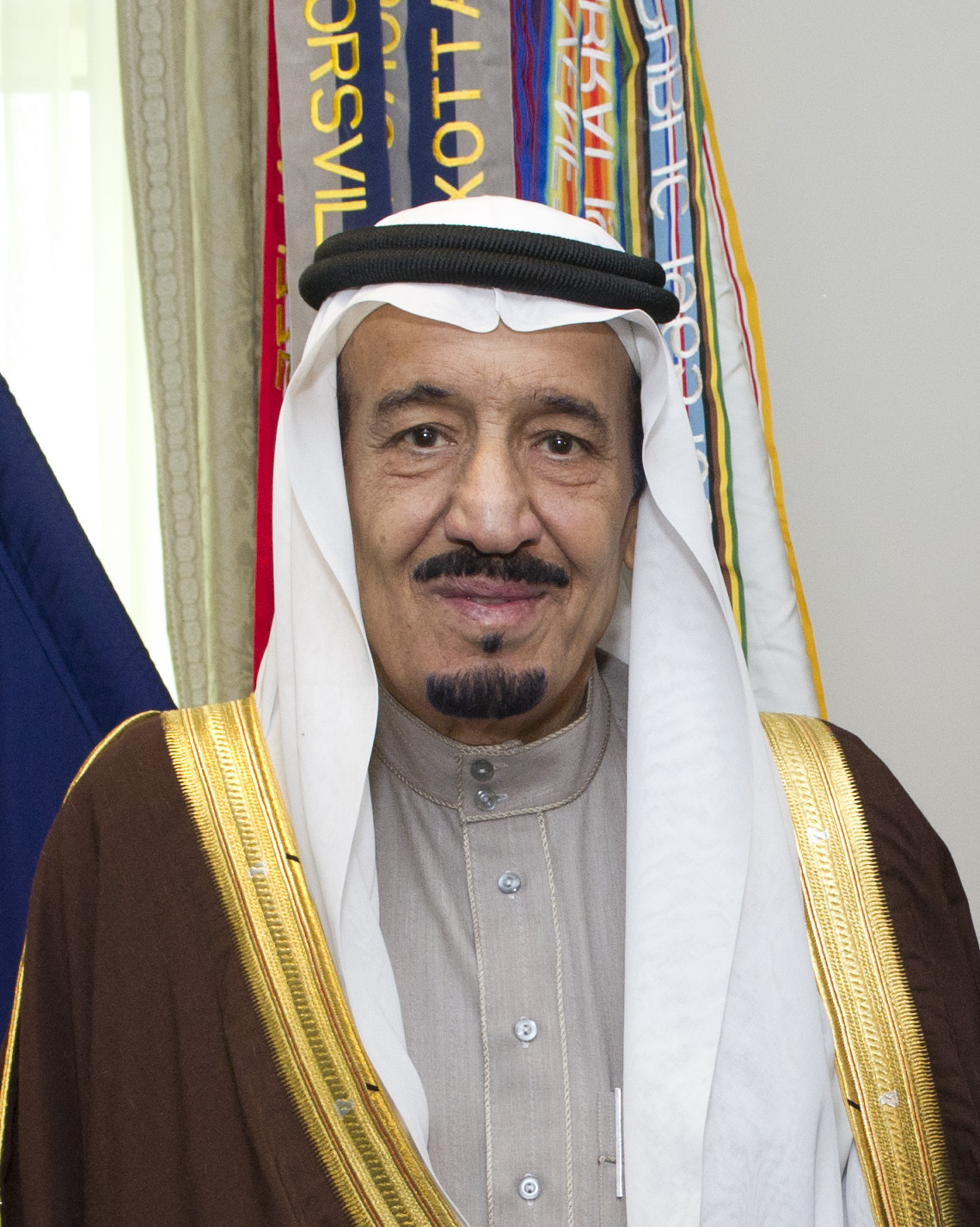 Secretary of Defense Leon E. Panetta poses for an official photograph with Saudi Arabia's Minister of Defense Prince Salman bin Abd al-Aziz Al Saud at the Pentagon on April 11, 2012 in Washington D.C.(DoD photo by Erin A. Kirk-Cuomo)(Released)